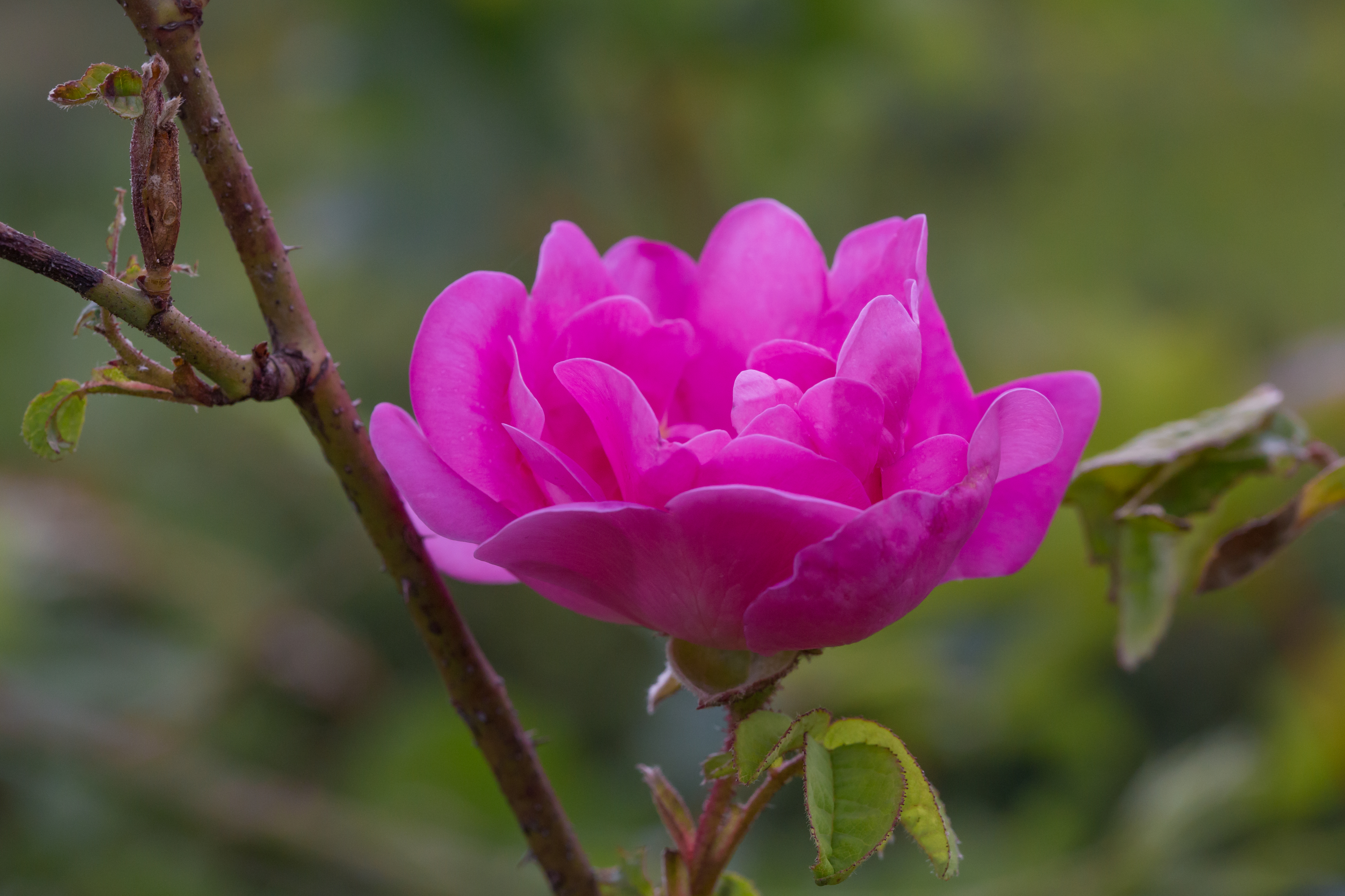 Damask Rose (Rosa × Damascena) planted in the mountains of the Loire.